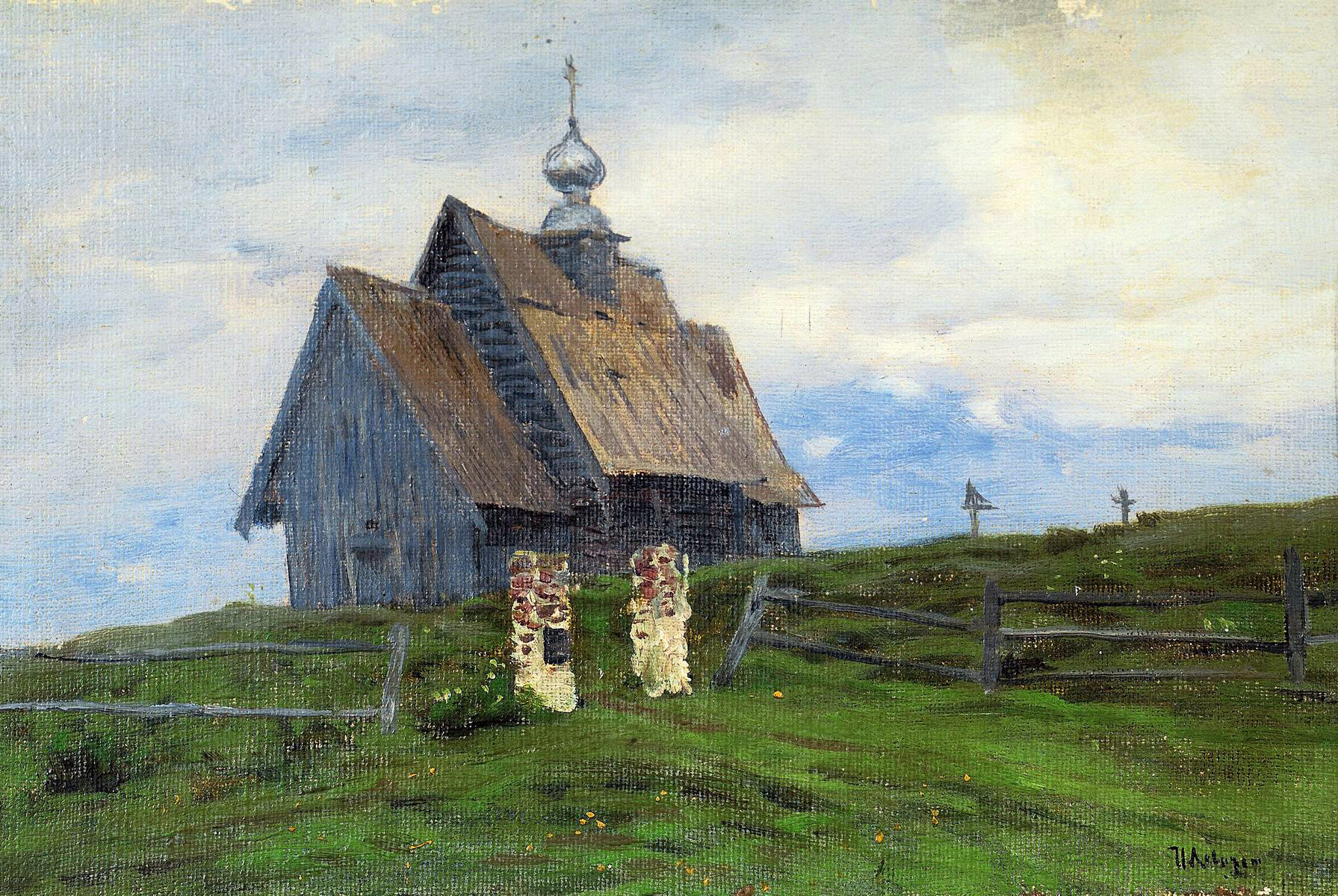 Wooden church in Plyos at the sunset (study by Isaac Levitan, 1888)